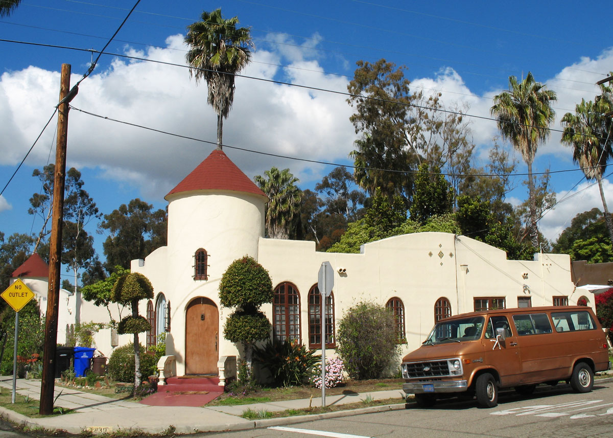 House in South Park, San Diego, California